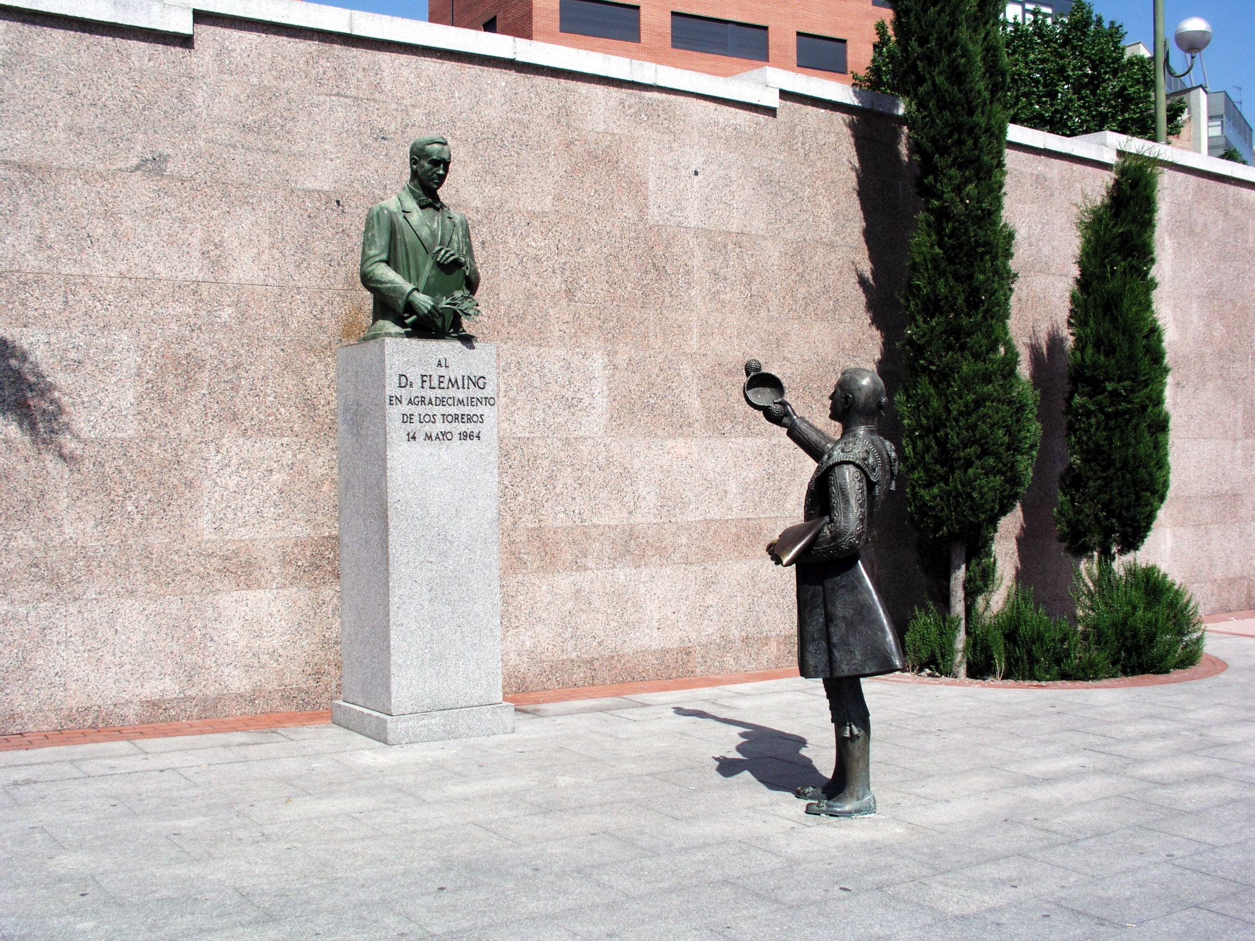 Las Ventas, Madrid, Spain. "Agradecimiento a Dr Fleming". Staty outside the Ventas.